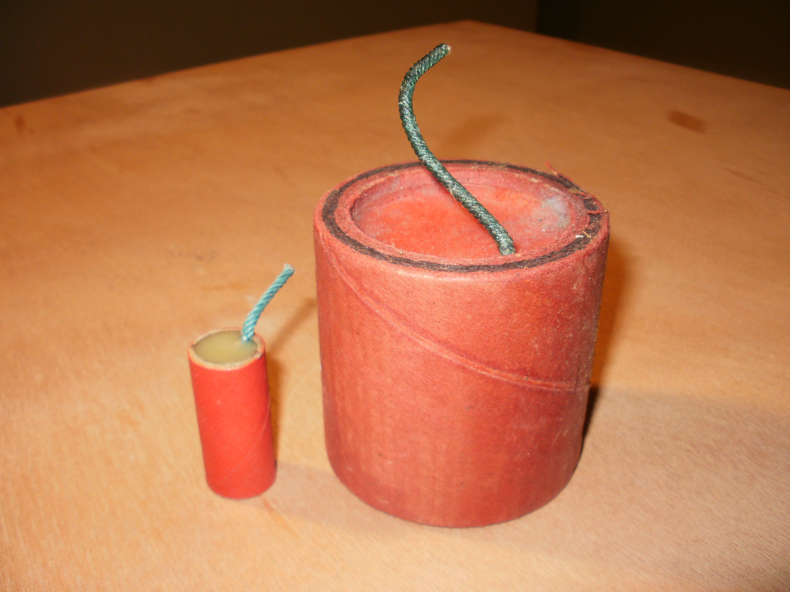 M-2000, or Quarter Stick, shown next to the smaller and more common M-80.